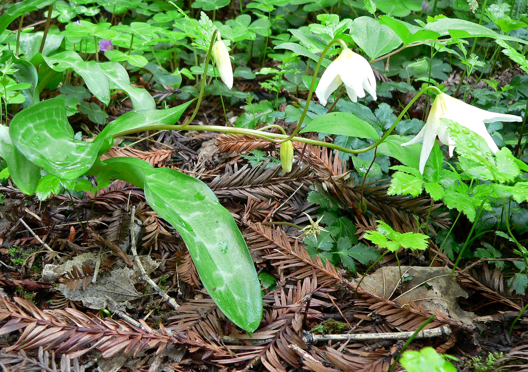 Photo of Erythronium helenae at the Regional Parks Botanic Garden, Berkeley, California